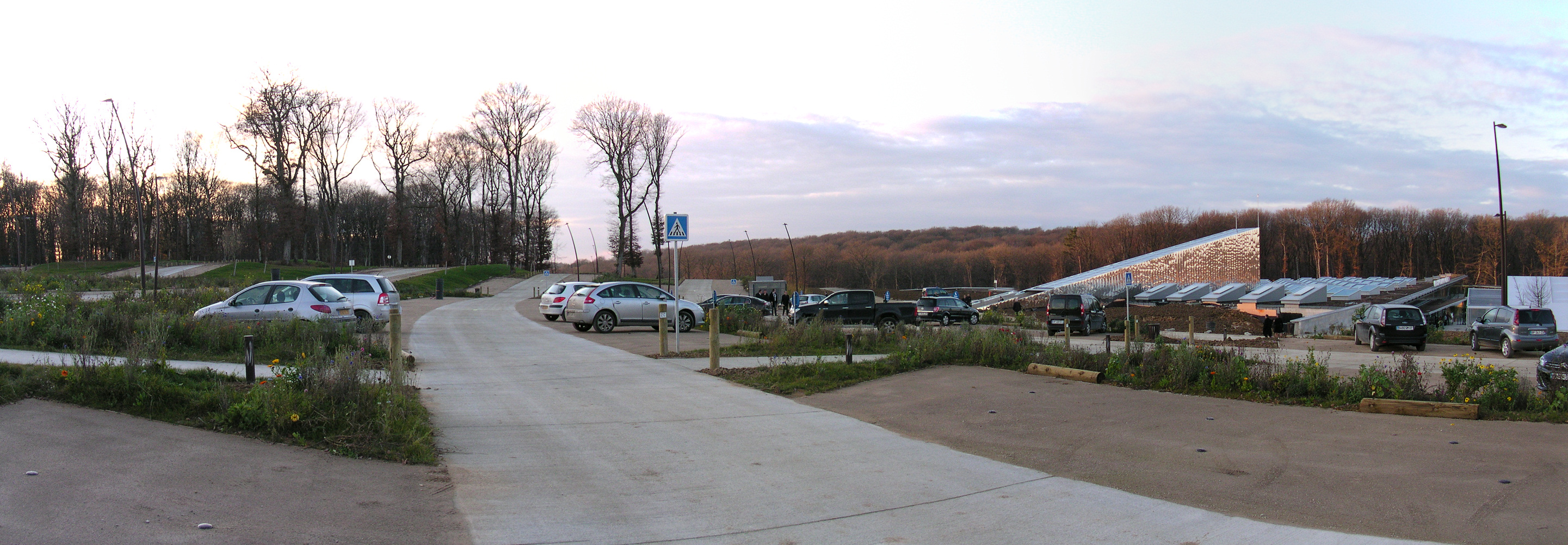 Parking lot of the Besançon Franche-Comté TGV railway station on the day of the station's inaugural. On the right the passenger building with its south (from the parking lot) and east (from the downhill Kiss and Ride) entrances.